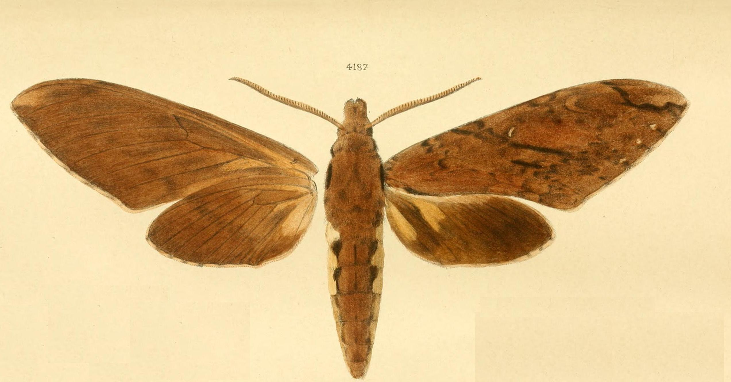 Xanthopan morgani predicta